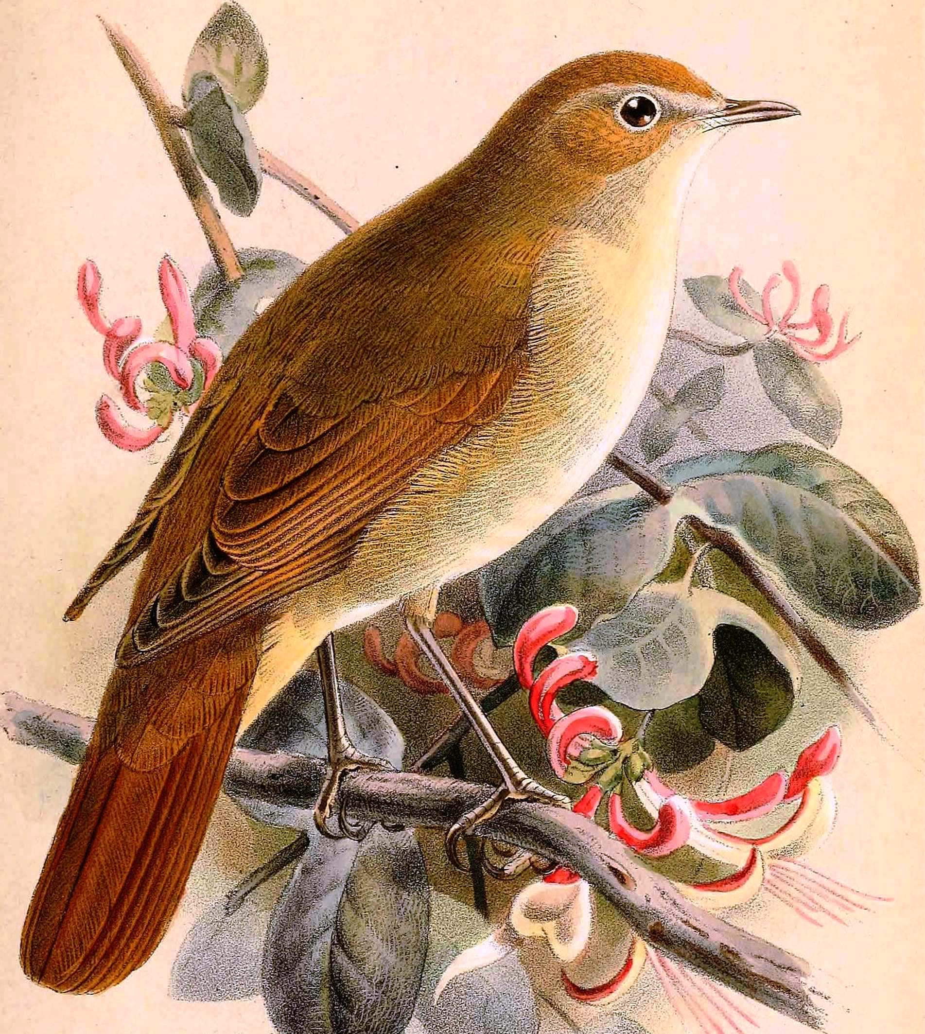 Luscinia megarhynchos. Lord Lilford